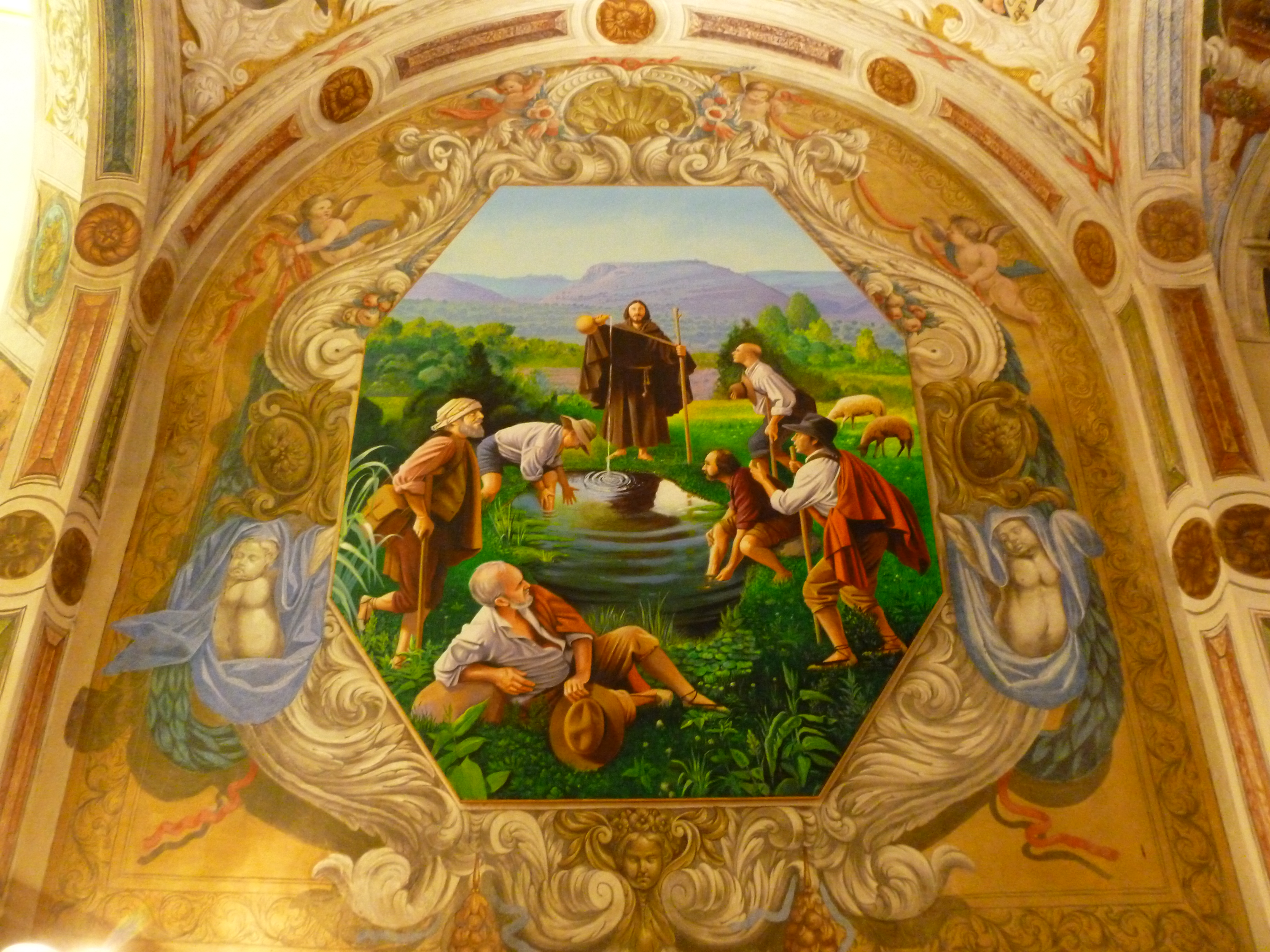 Albocàsser Saint Paul Hermitage